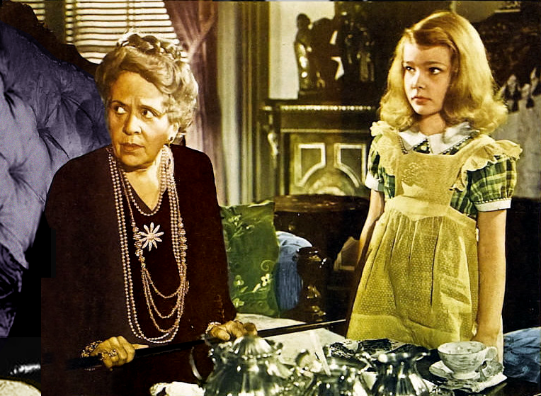 Colored lobby card for Curse of the Cat People (RKO, 1944), featuring Julia Dean and Ann Carter. Image is assumed to be in the public domain, as no copyright notice is in evidence.